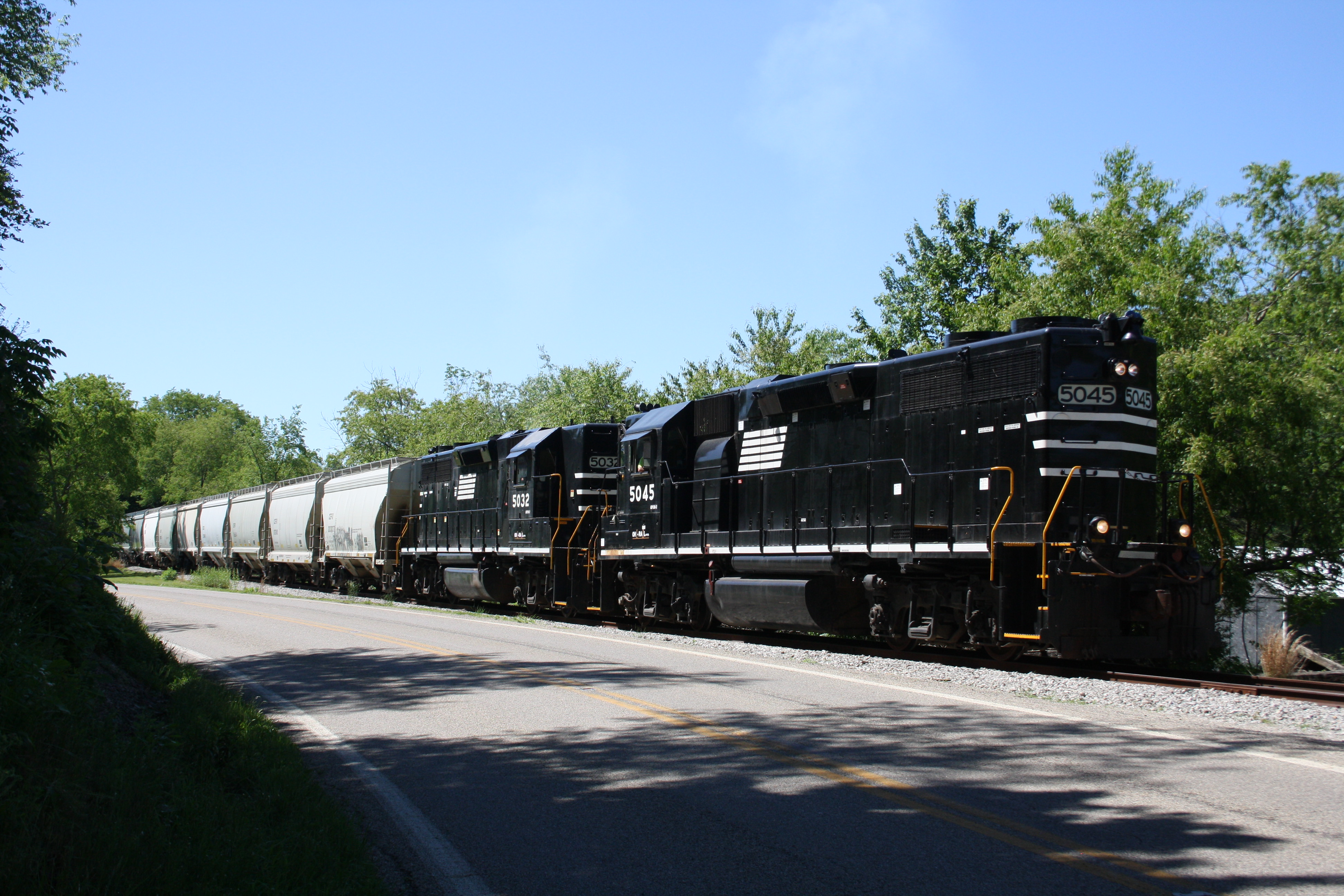 OHIC geeps working a train of storage cars north through Wattsville, OH